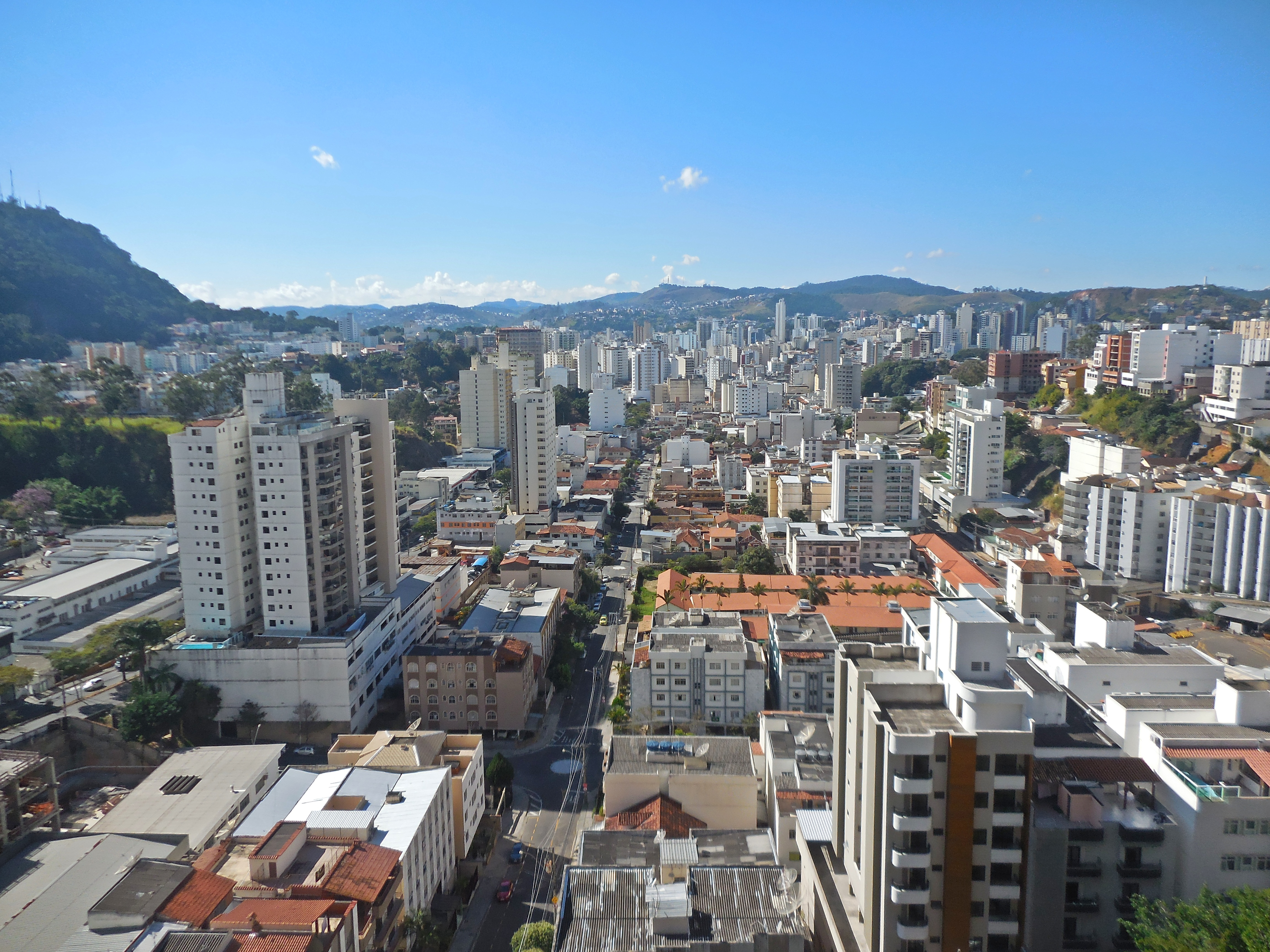 View of Juiz de Fora, Minas Gerais, Brazil, seen from of the Shopping Independência.